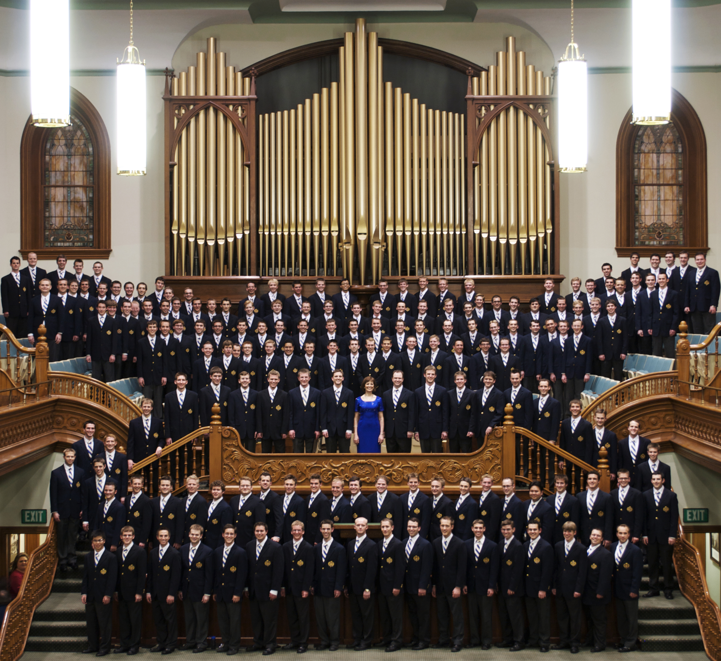 Members of BYU's Men's Chorus in 2009 (edited by mwilson3)